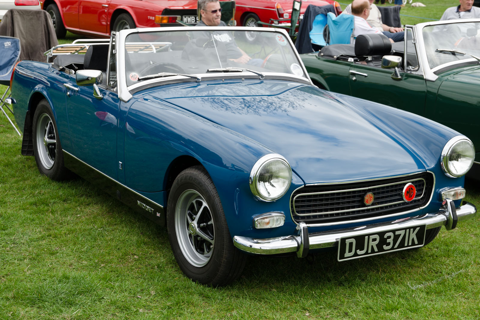 Catton Hall Classic Car Show 05/05/2013